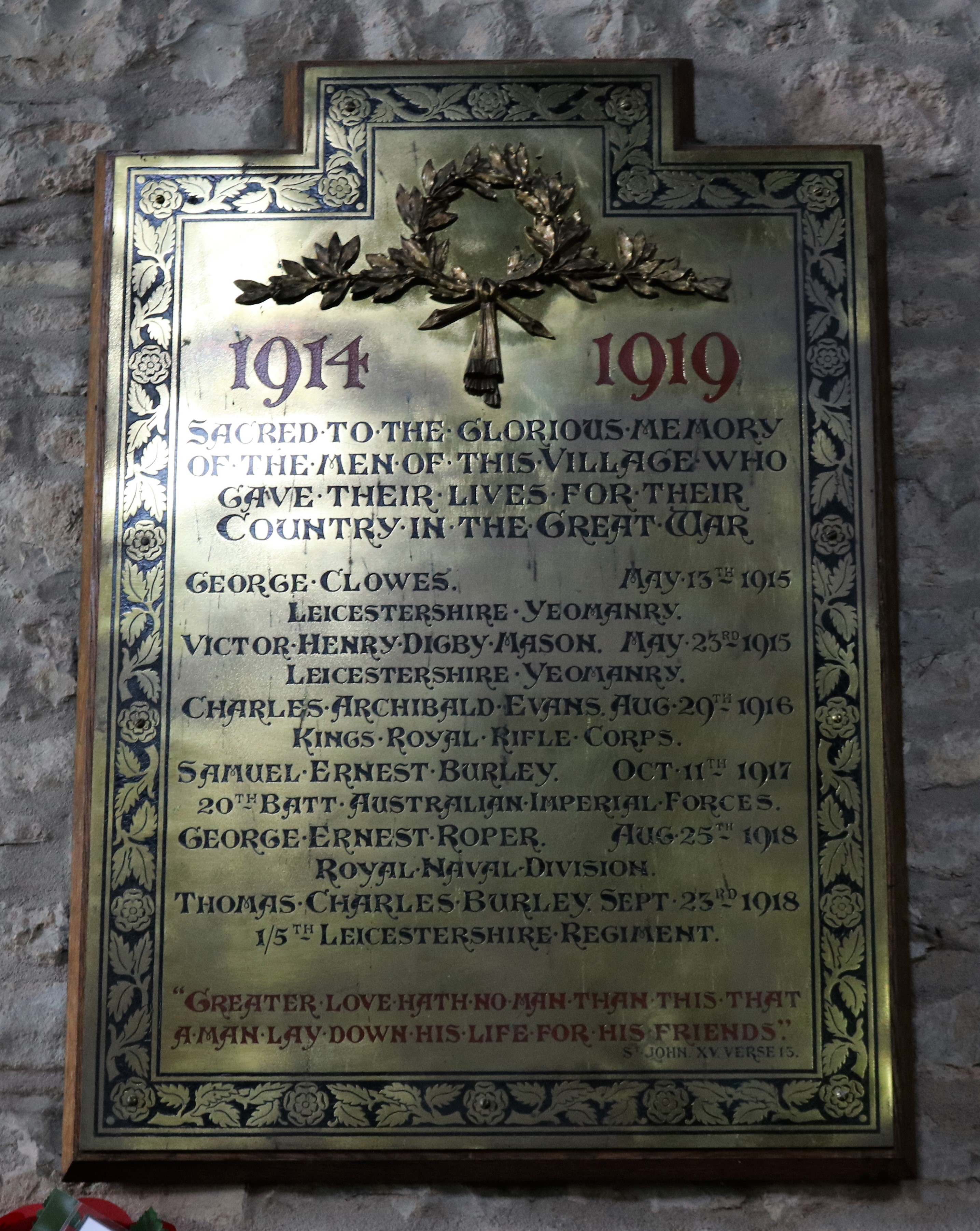 The war memorial inside St James' Church at Normanton on Soar.